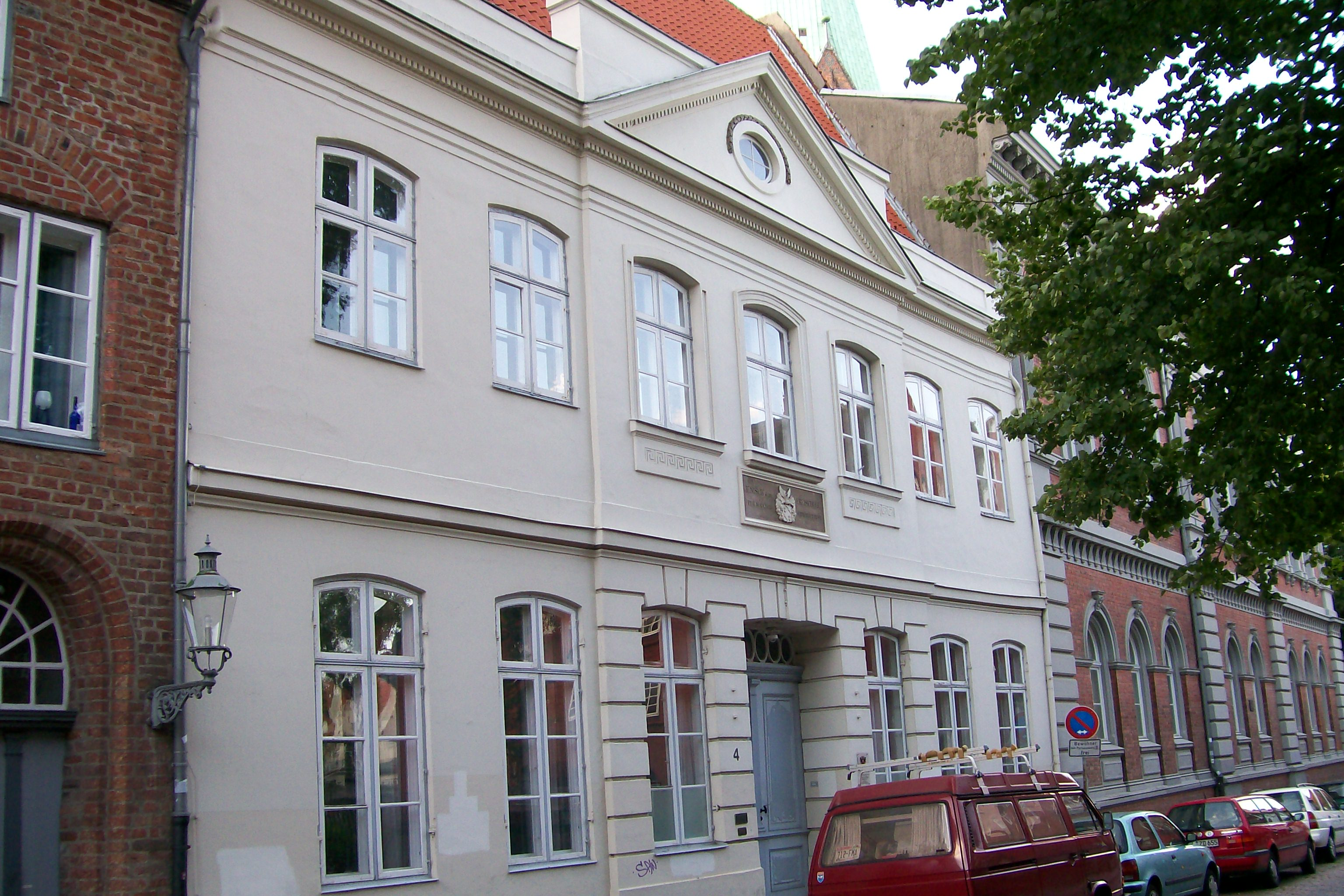 Jenische Freischule, former privately run girls’ school in St.- Annen-Straße, Lübeck, Schleswig-Holstein, Germany. It was founded in 1803 by Margaretha Elisabeth Jenisch (1763-1832). The building nowadays is used as Hotelfachschule Karl Friedrich von Rumohr.